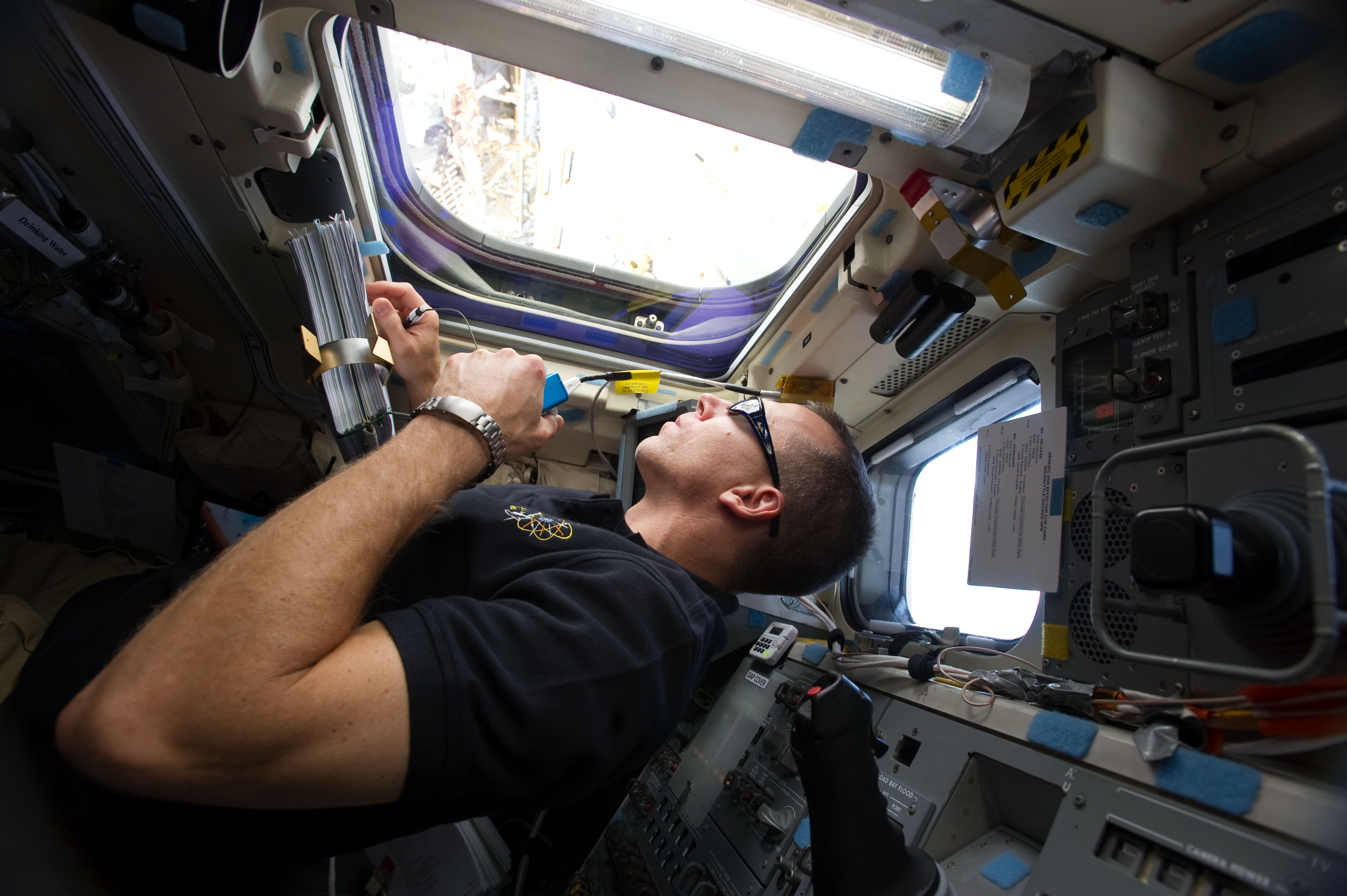 NASA astronaut Andrew Feustel, STS-134 mission specialist, uses a communication system while looking through an overhead aft flight deck window of space shuttle Endeavour while docked with the International Space Station on flight day 12.